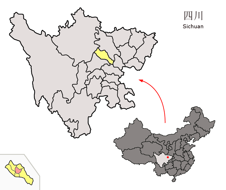 Location of Jingyang District (pink) and Deyang Prefecture (yellow) within Sichuan province of China Map drawn in october 2007 using various sources, mainly : Sichuan province administrative regions GIS data: 1:1M, County level, 1990 Sichuan Counties map from